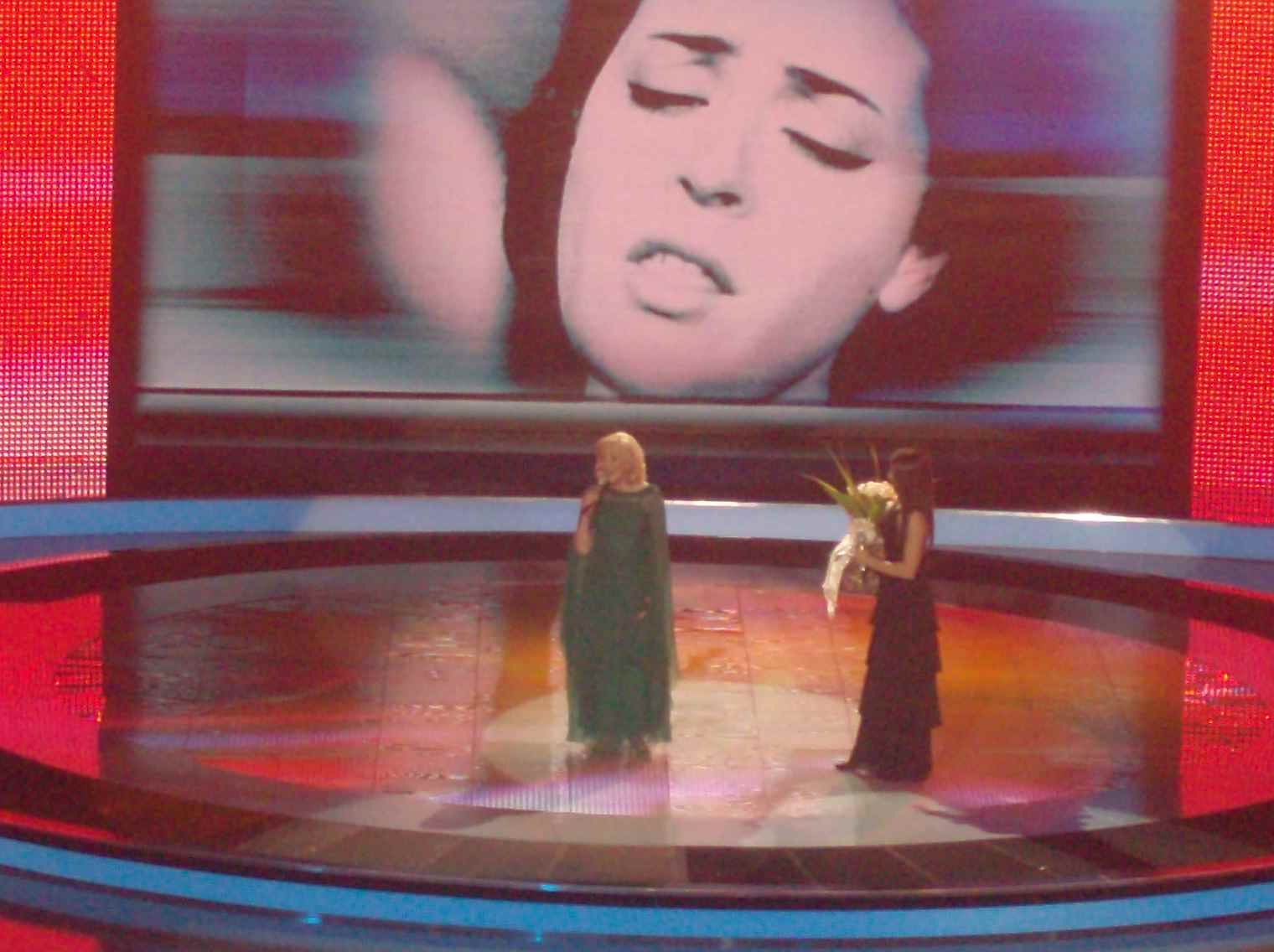 Festival RTP da Canção 2010 2nd semifinal